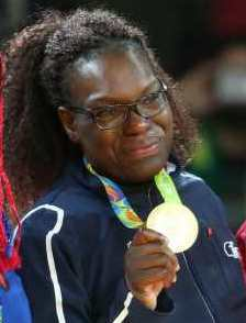 Émilie Andéol (born 30 October 1987) is a French judoka competing in the women's 70 kg division. Gold medal in Rio 2016.